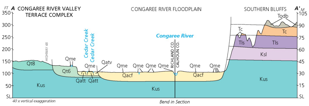 Congaree NP geologic cross section, where Kus is undifferentiated Upper Cretaceous, Ksl is the Sawdust Landing Formation, Tsl is the Lang Syne Formation, Tc is the Congaree Formation, Todb is the Orangeburg District Bed, Qt6 and Qt8 are terraces in the Congaree River Valley Terrace Complex, Qatt are microterraces, Qacf is the Congaree River floodplain, and Qme is moved earth